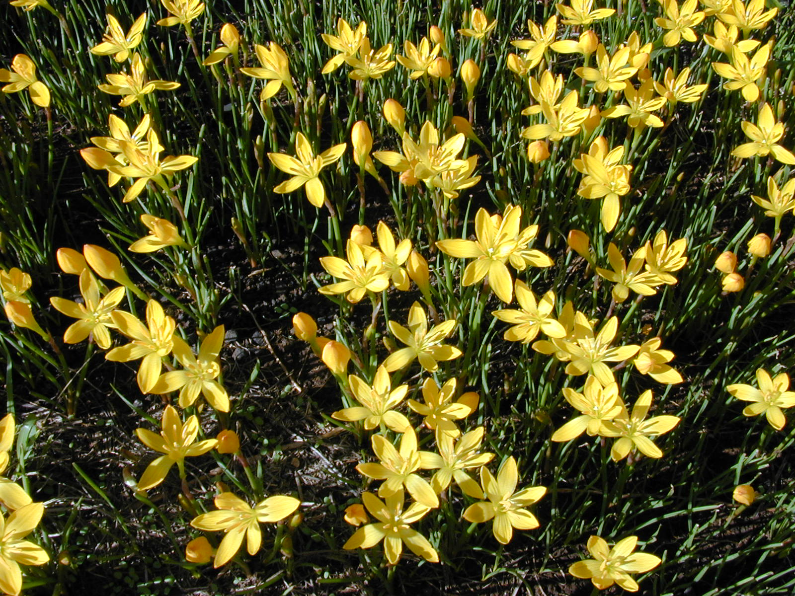 Zephyranthes citrina (flowers from above). Location: Maui, Paia